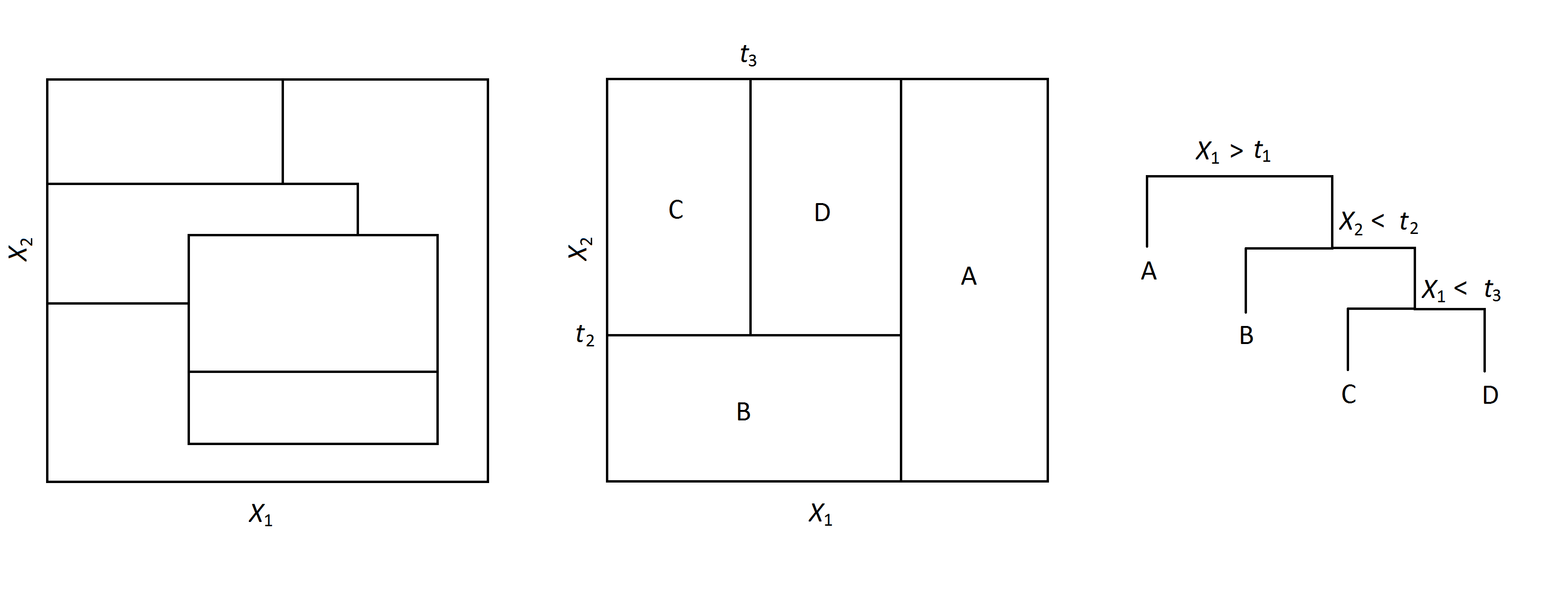 Left: A partitioned two-dimensional feature space. These partitions could not have resulted from recursive binary splitting. Middle: A partitioned two-dimensional feature space with partitions that did result from recursive binary splitting. Right: A tree corresponding to the partitioned feature space in the middle. Notice the convention that when the expression at the split is true, the tree follows the left branch. When the expression is false, the right branch is followed.